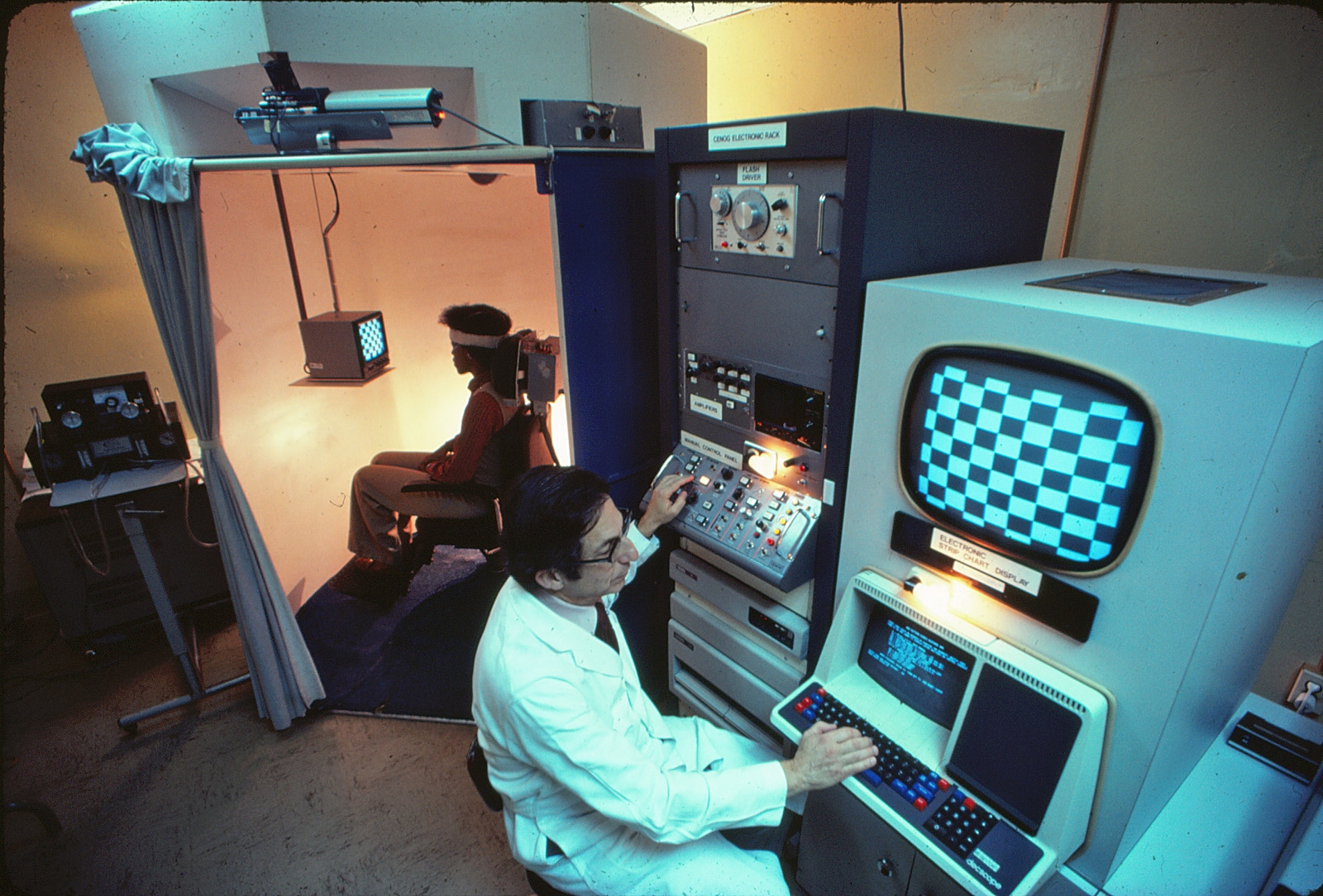 BRF CENOG operated by Robert Ledley